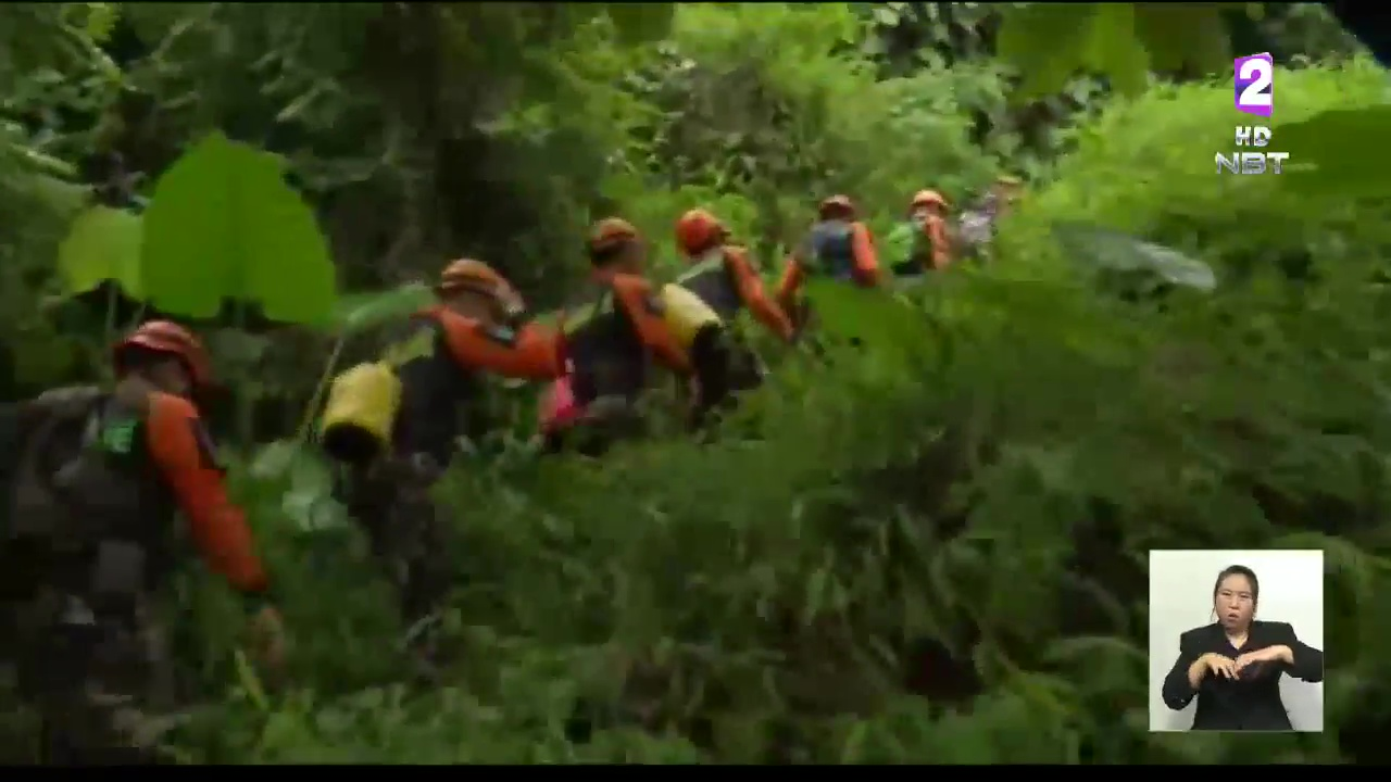 DNP rangers do a foot survey of the forest above Tham Luang in search of potential cave entrances during 26–27 June 2018.